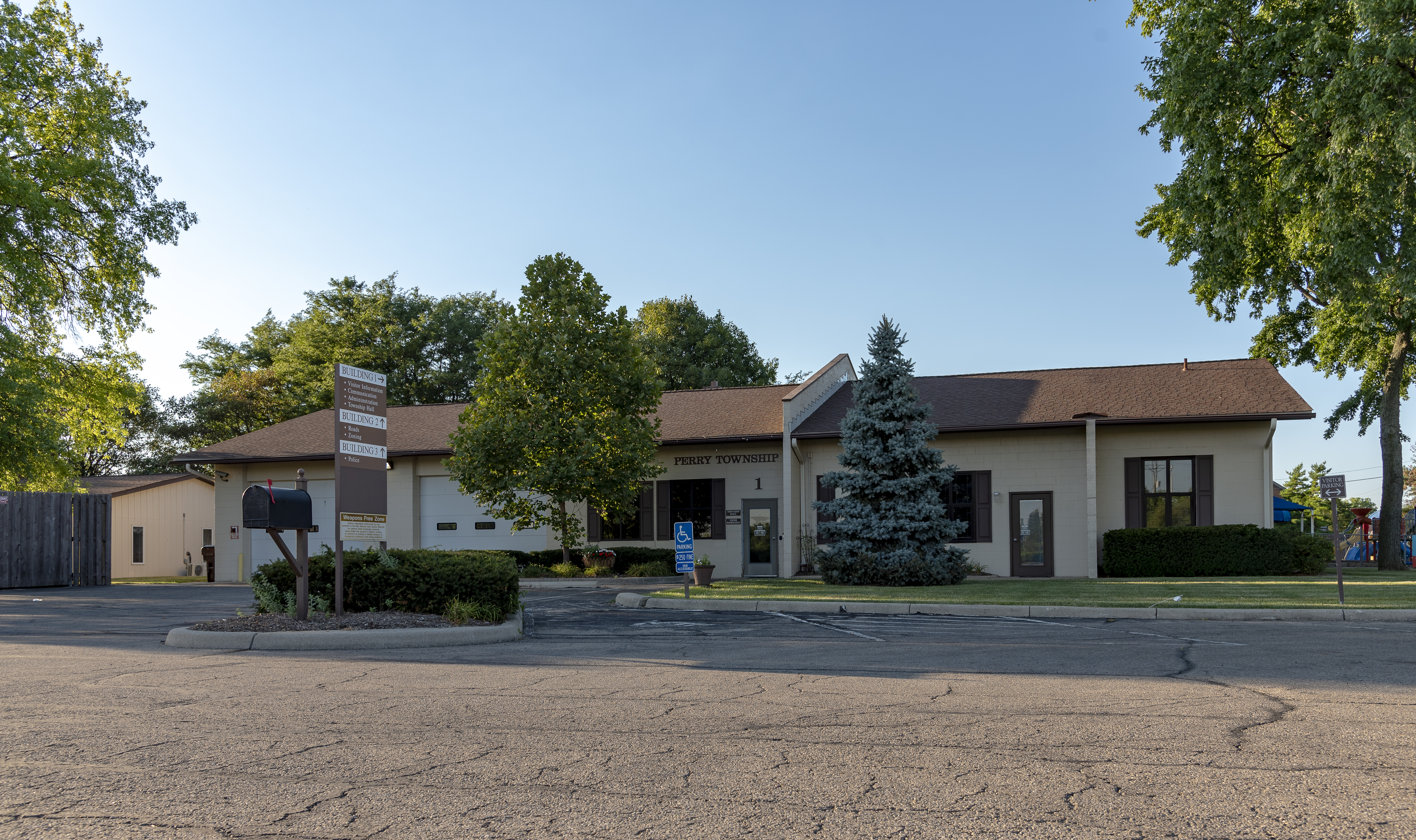 Perry Township Town Hall and administrative offices.